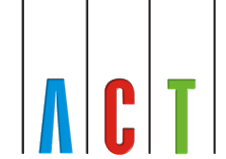 ACT Airlines logo from